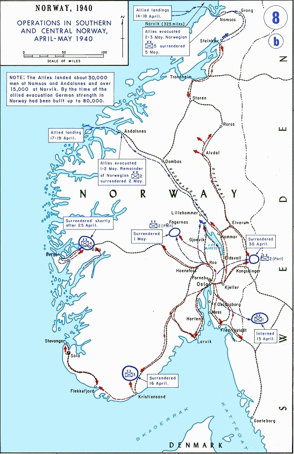 Source: Department of History, United States Military Academy. Cropped by uploader. Link